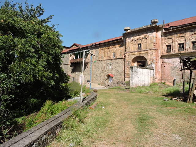 Palace of erstwhile Princely State Kuthar, Himachal Prades,India